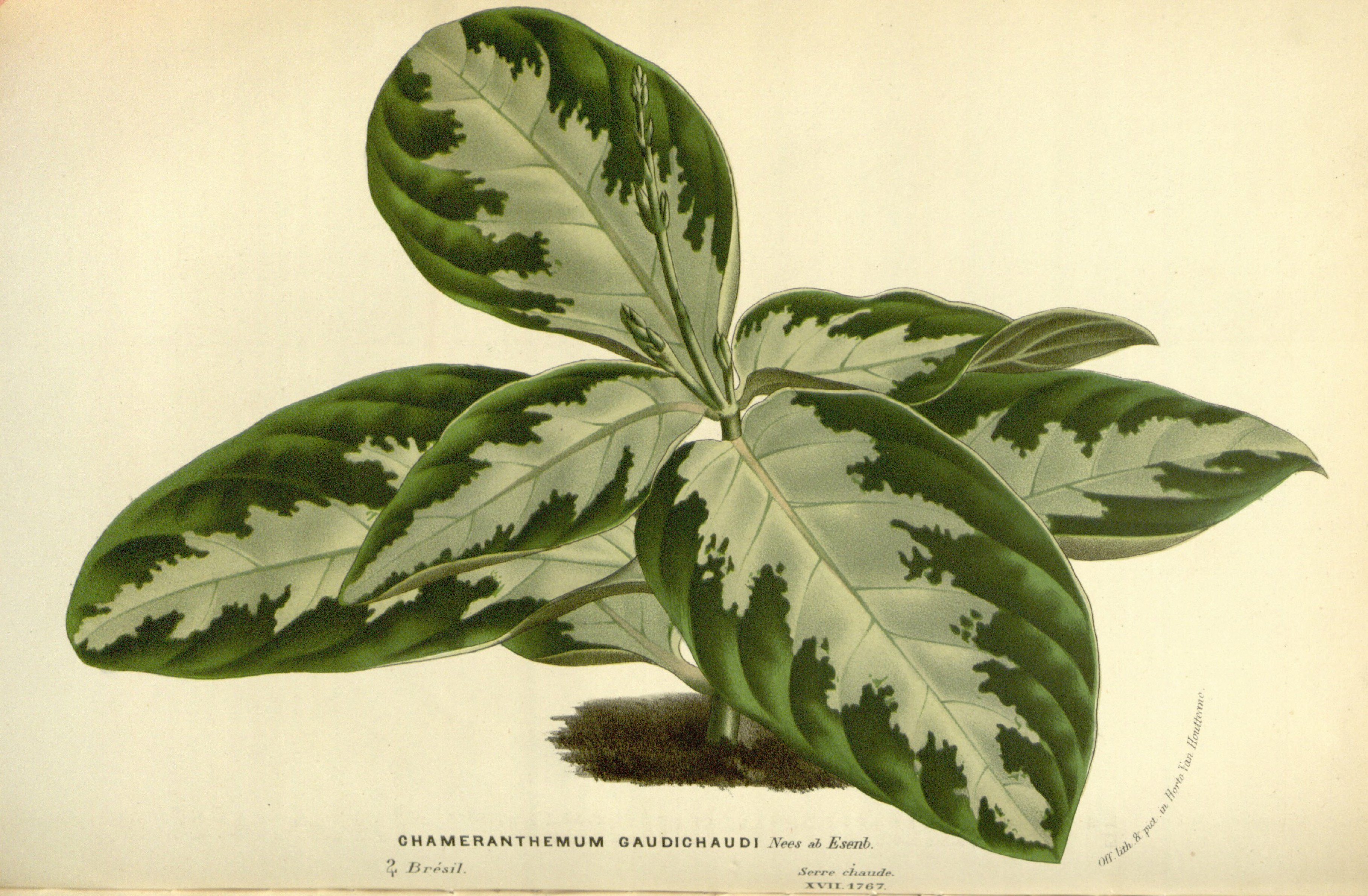 Chamaeranthemum beyrichii var. rotundifolium Nees as Chamaeranthemum gaudichaudii